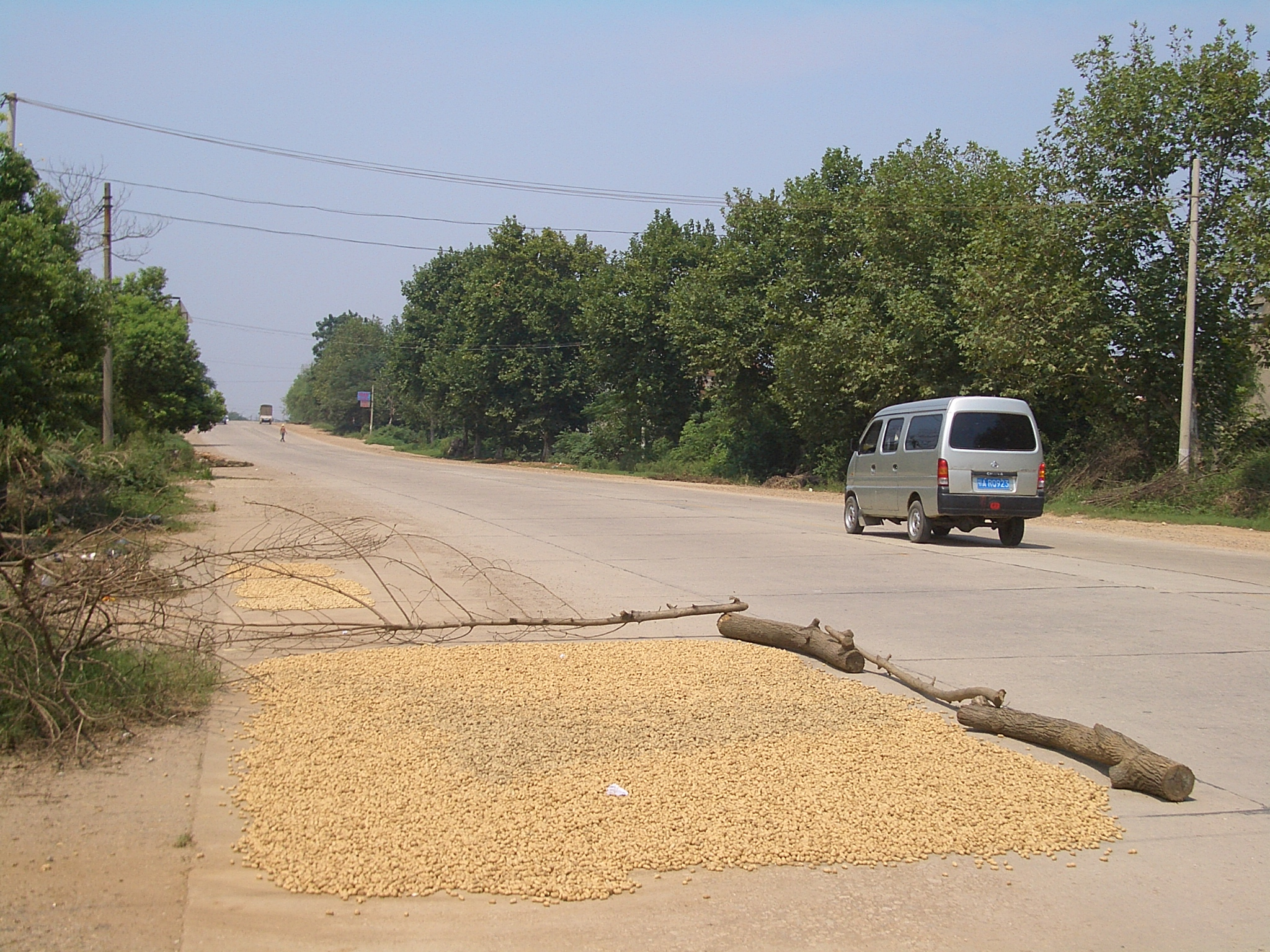 Peanuts dried in Jiangxia District, on one of the main roads from Wuhan proper to Jiangxia urban area.